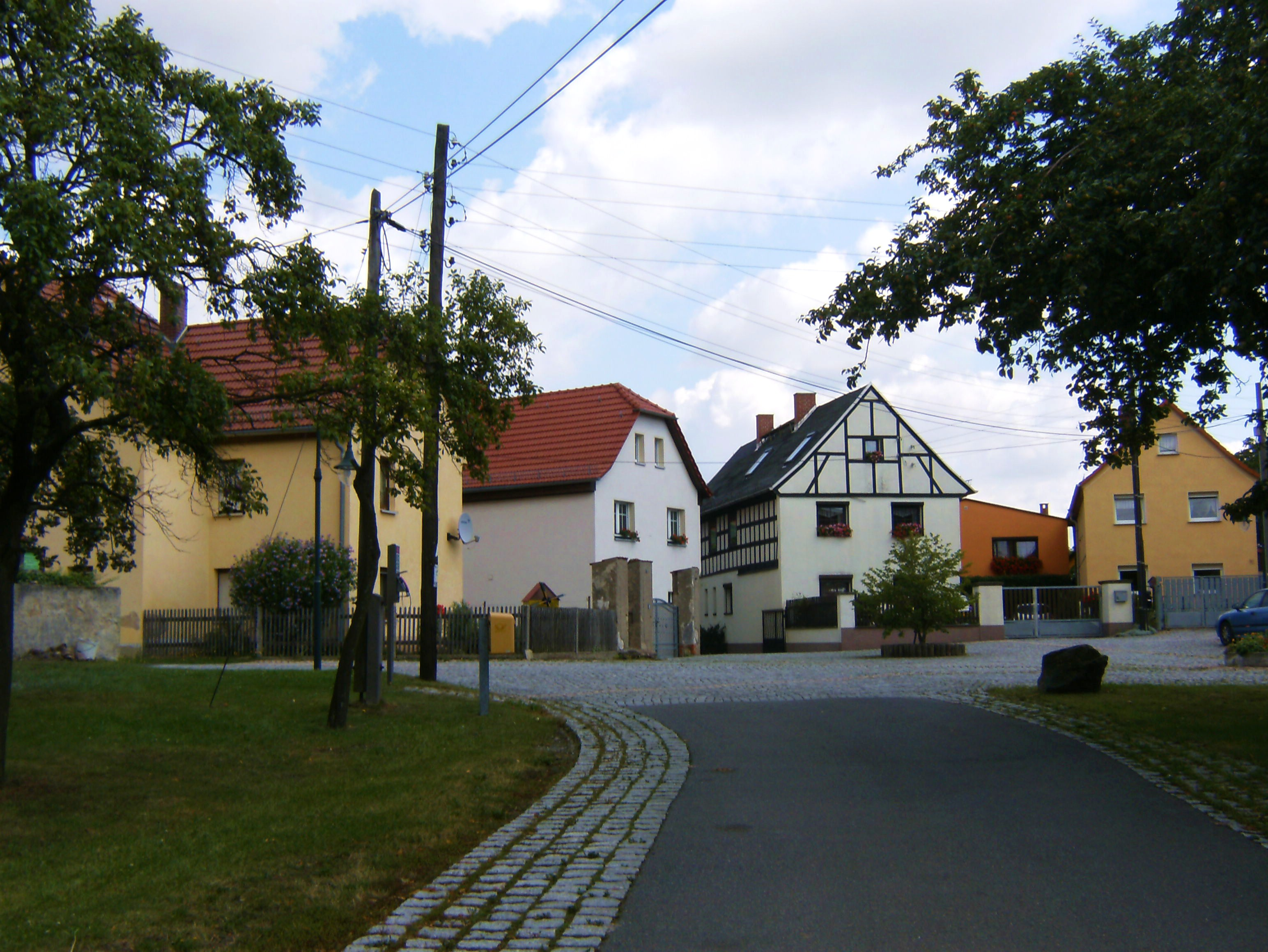 Gera Weißig, village round.